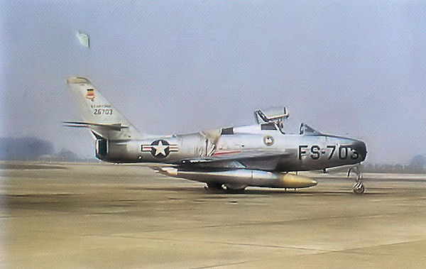 A U.S Air Force Republic F-84F-45-RE Thunderstreak (s/n 52-6703) of the 20th Fighter-Bomber Wing, RAF Wethersfield, Essex (UK). This aircraft was later sold to West Germany (s/n DE+258, later DE+114) and then finally to Greece.